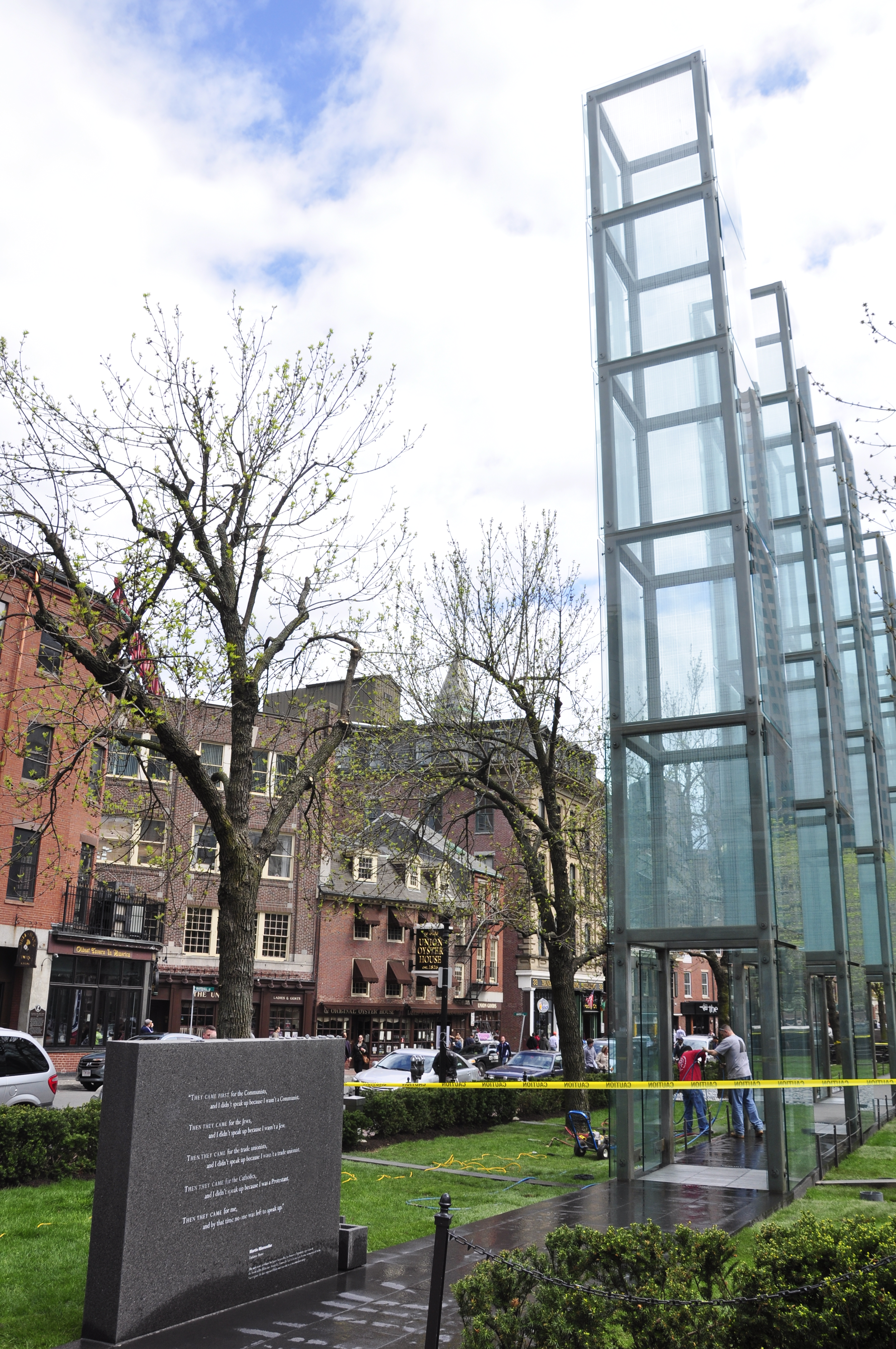 New England Holocaust Memorial